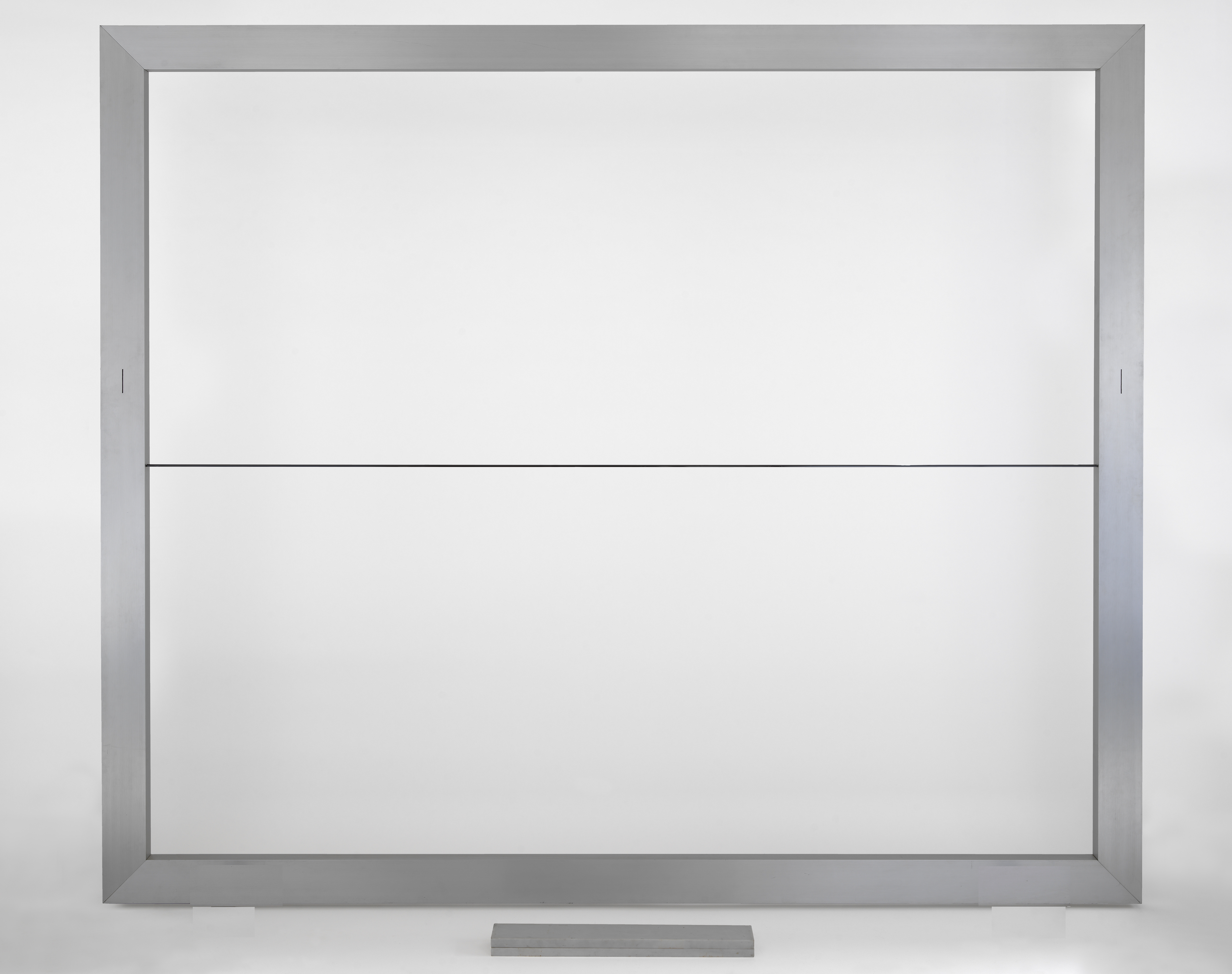 Carlo Alfano, Stanza per voci